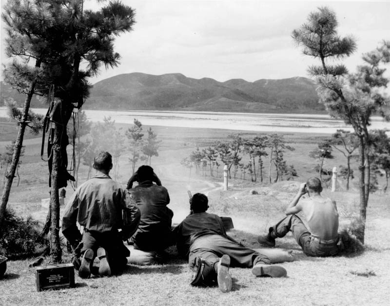 SC346955 - KOREAN CONFLICT A .50 Cal. Machine gun squad of Co. E, 2nd Battalion, 7th Regiment, 1st Cavalry Division, fires on North Korean patrols along the north bank of the Naktong River, Korea. 26 August 1950. Korea. Signal Corps Photo #8A/FEC-50-7043 (Sfc. Riley)